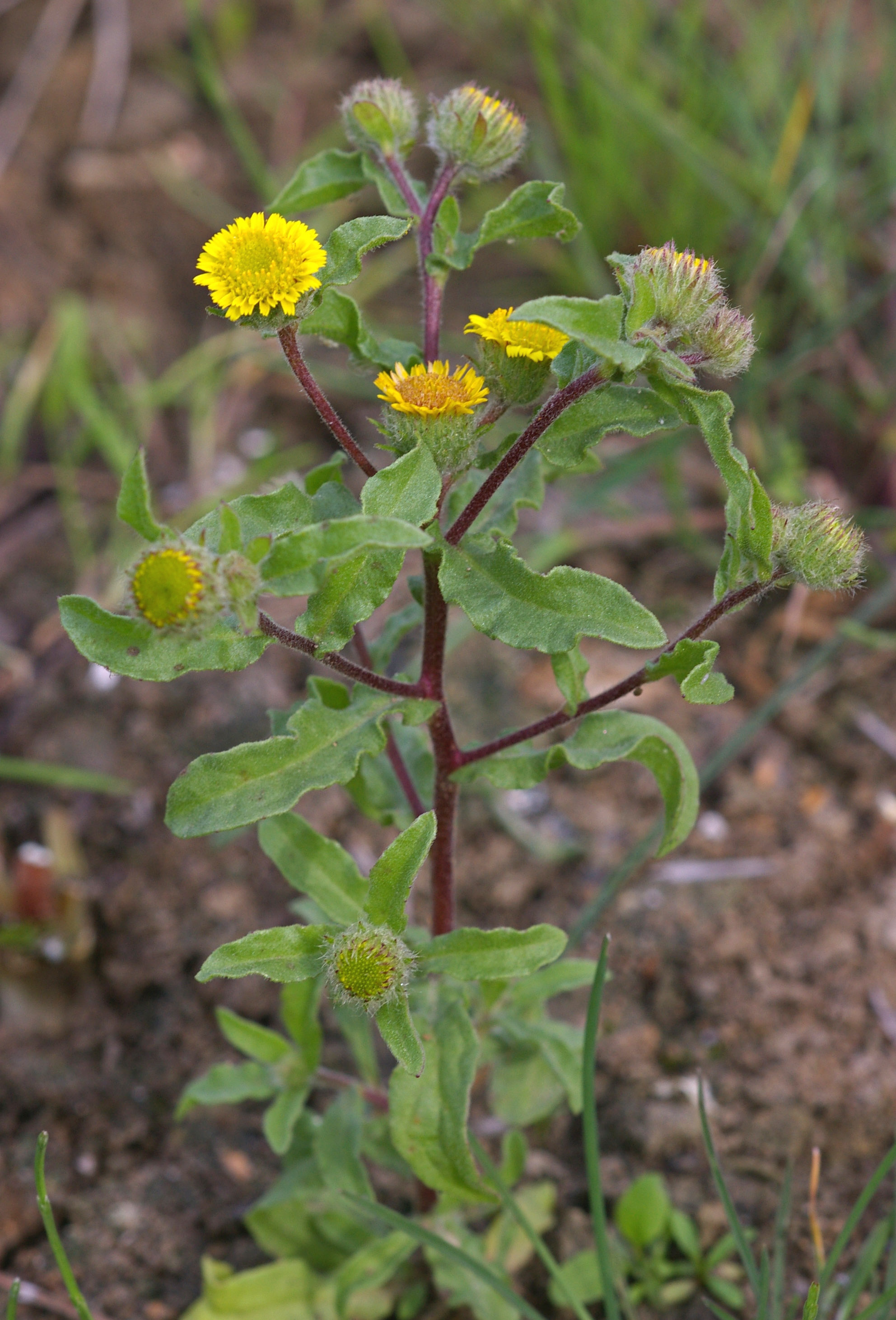 Habitus of Pulicaria vulgaris (Asteraceae).